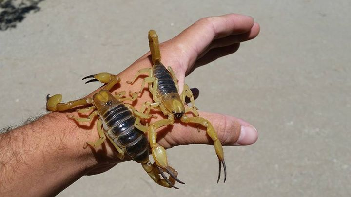 Opistophthalmus longicauda - female on left - Aughrabies Falls, Northern Cape, South Africa